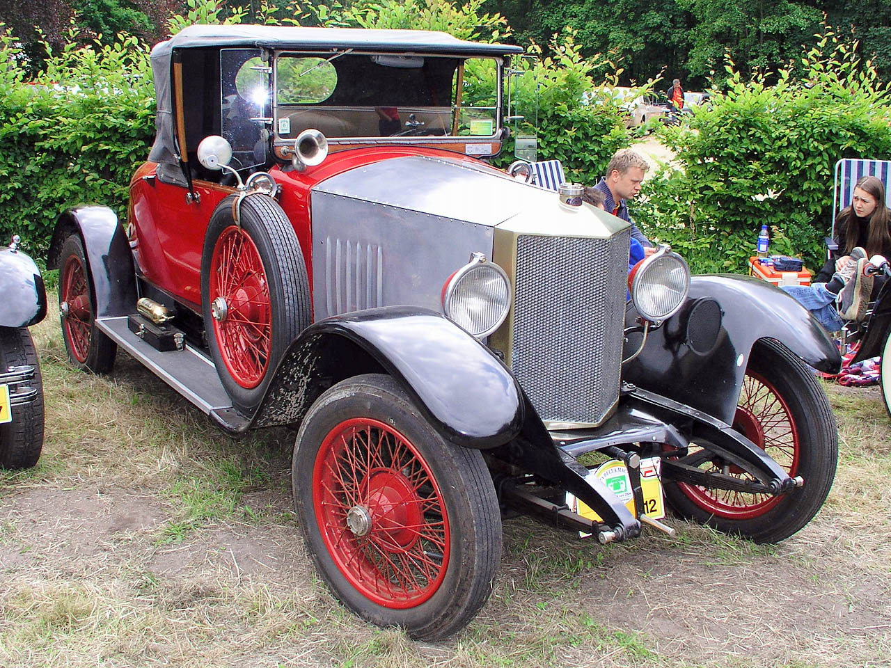 12/14 HP 4-cylinder car with roadster body, made in Belgium by SA L'Auto Métallurgique; right front-side view